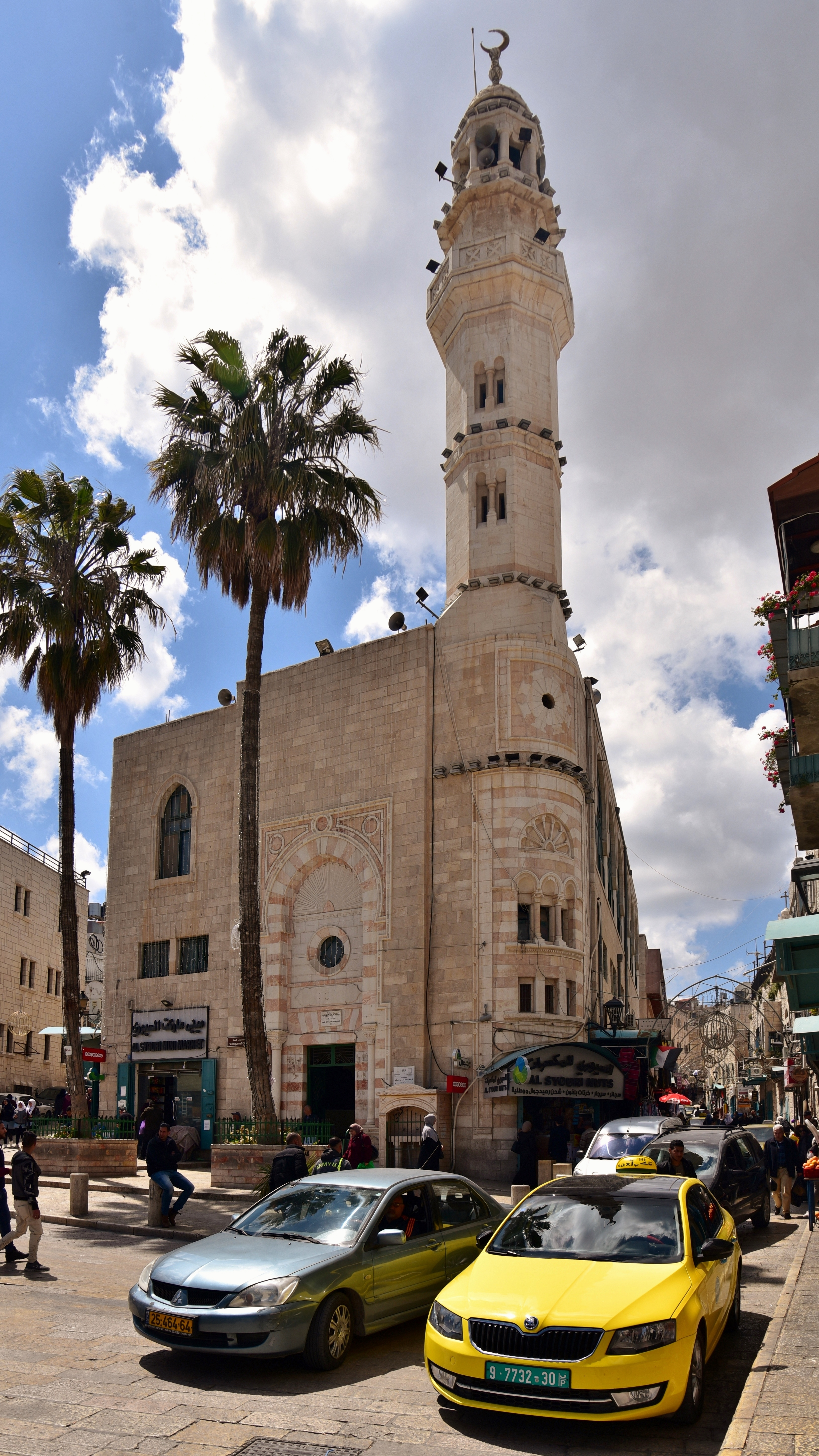 View of the Mosque of Omar, Bethlehem